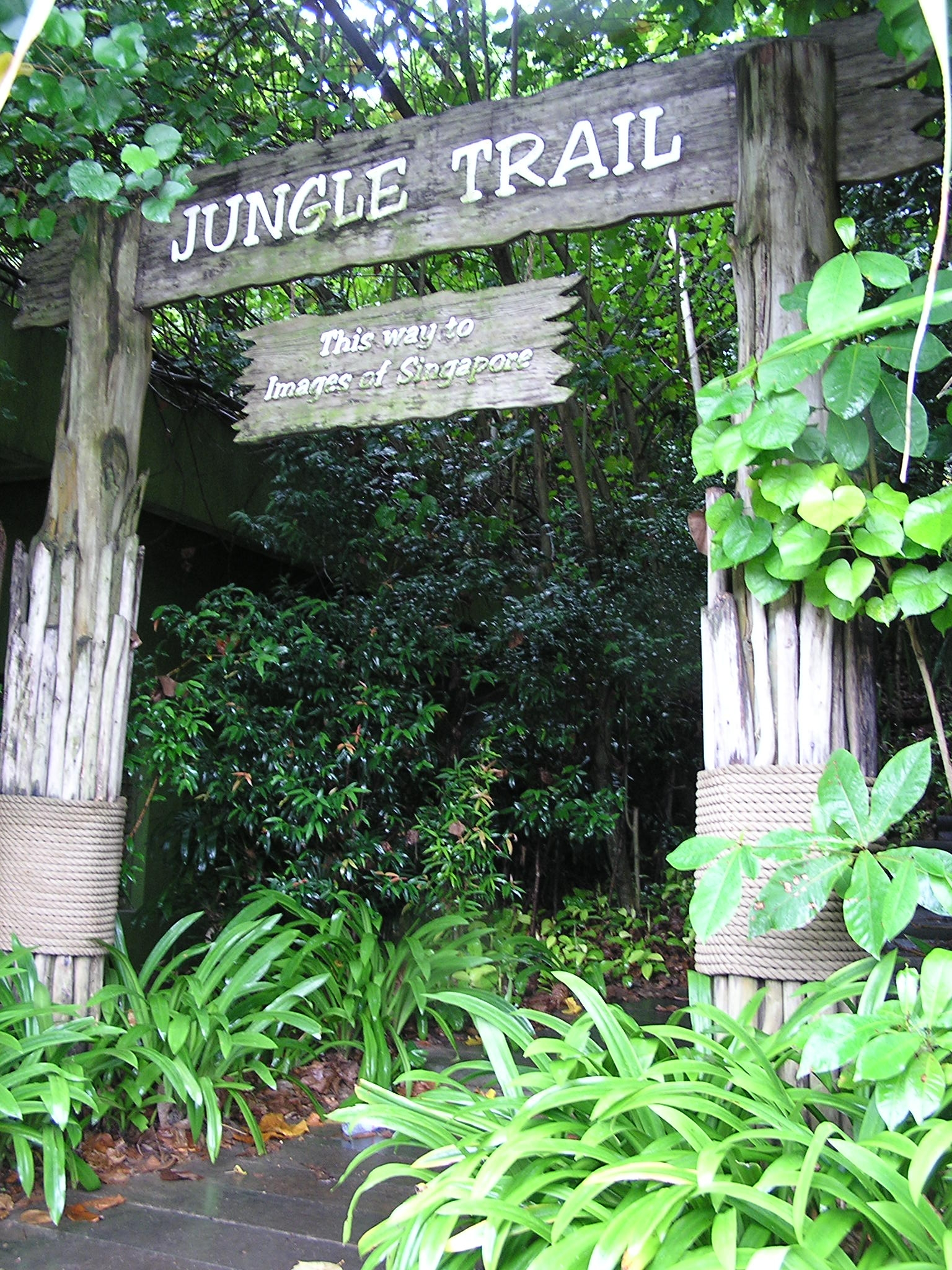 The Jungle Trail at Sentosa, Singapore.